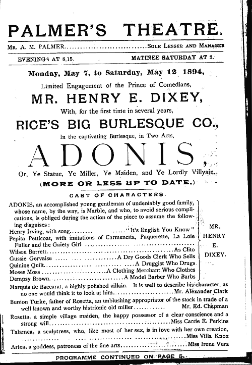 Page 1 of a burlesque programme for the show Adonis presented by Henry E. Dixey and Rice's Big Burlesque Co. at Palmer's Theatre, New York City, in May 1894. Scan of the print copy located in the collections of the Rare Book and Special Collections Division, Library of Congress.